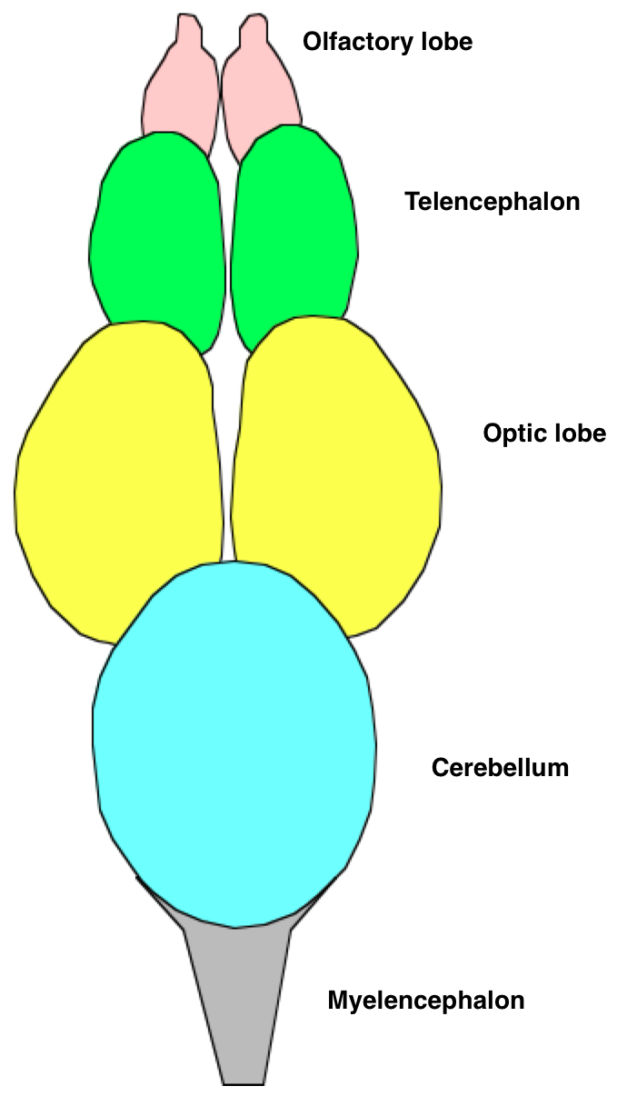 Schematic dorsal view of the brain of a trout (Oncorhynchus mykiss) with key features labelled.